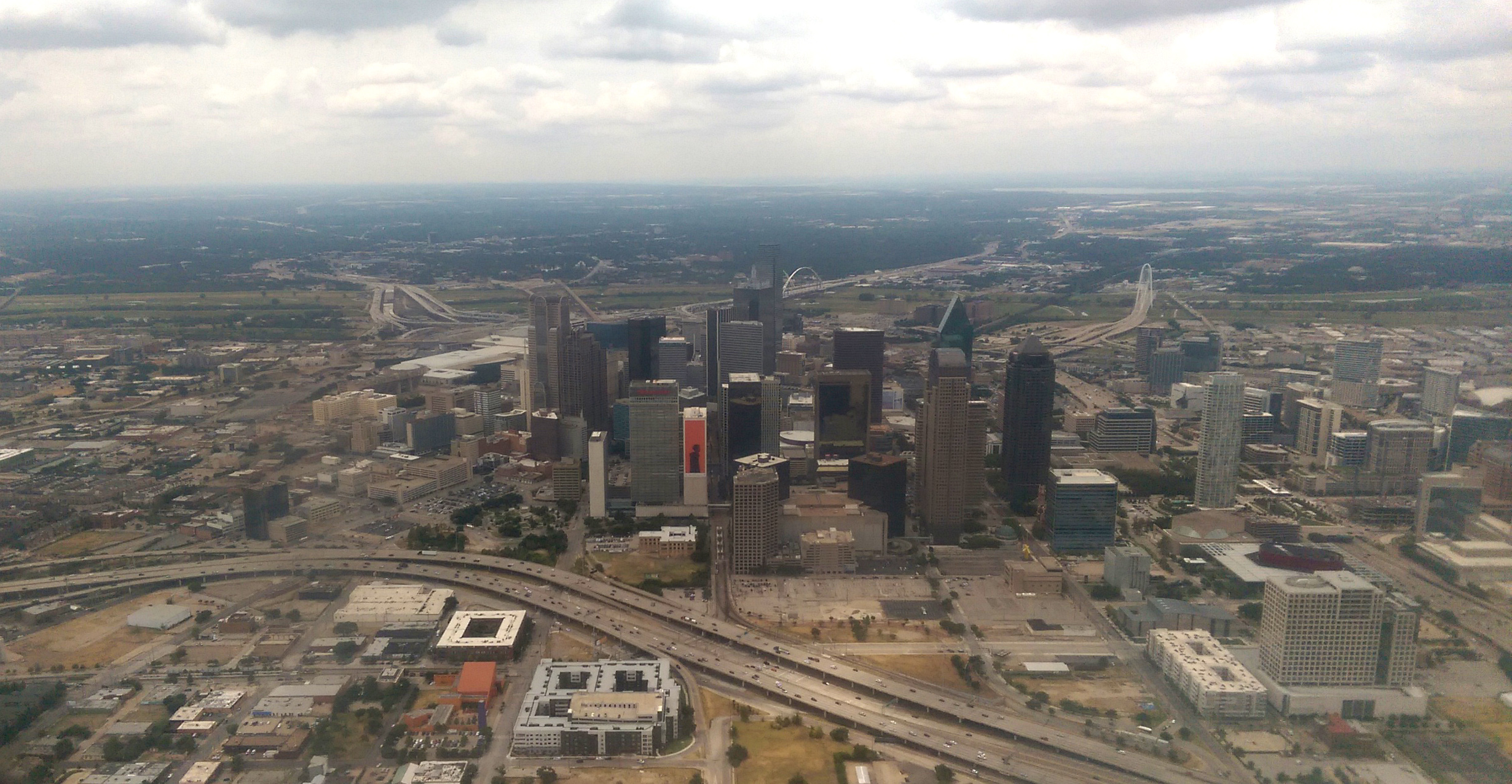 Dallas, Texas aerial view - downtown